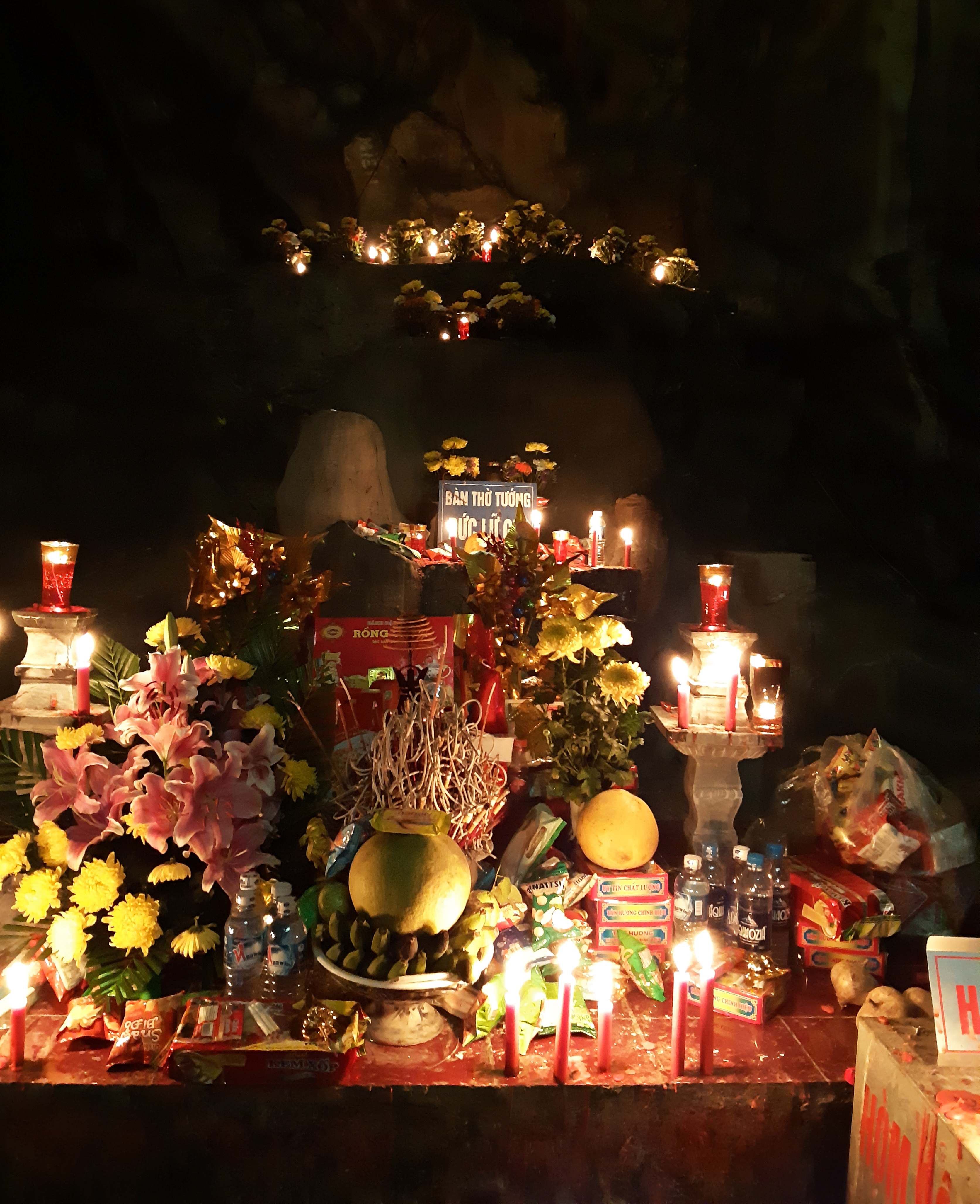 Altar of the Prime Minister Lu Gia (Lü Jia) inside Cac Co Cave, located at Thay Temple site (Sai Son Commune, Quoc Oai District, Hanoi, Vietnam).